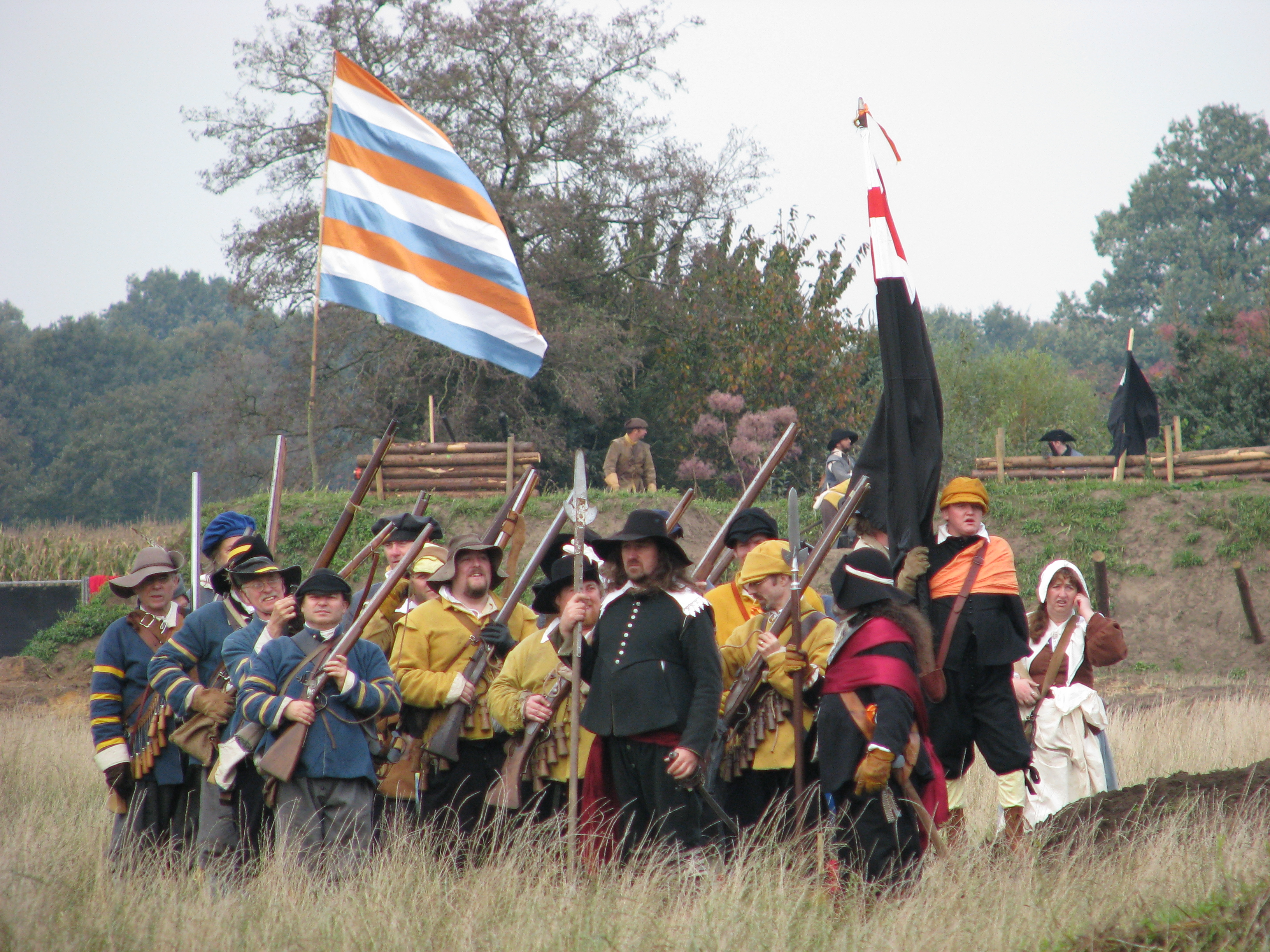 Slag om Grolle 2008 (reenactment of the Siege of Groenlo of 1627): Dutch troops on the battlefield